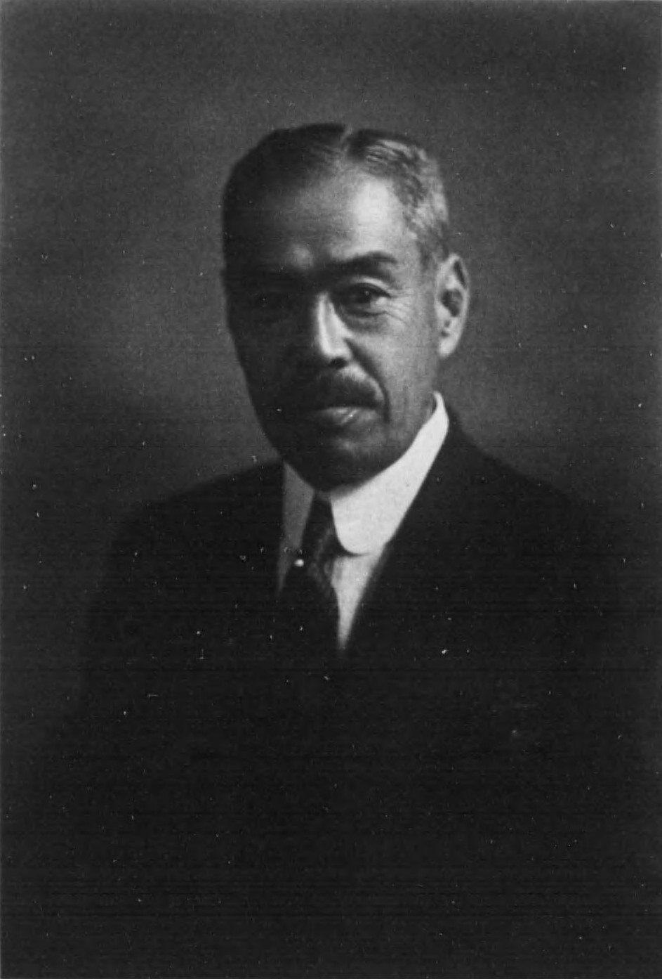 Iwasaki Toshiya, a Japanese businessman.